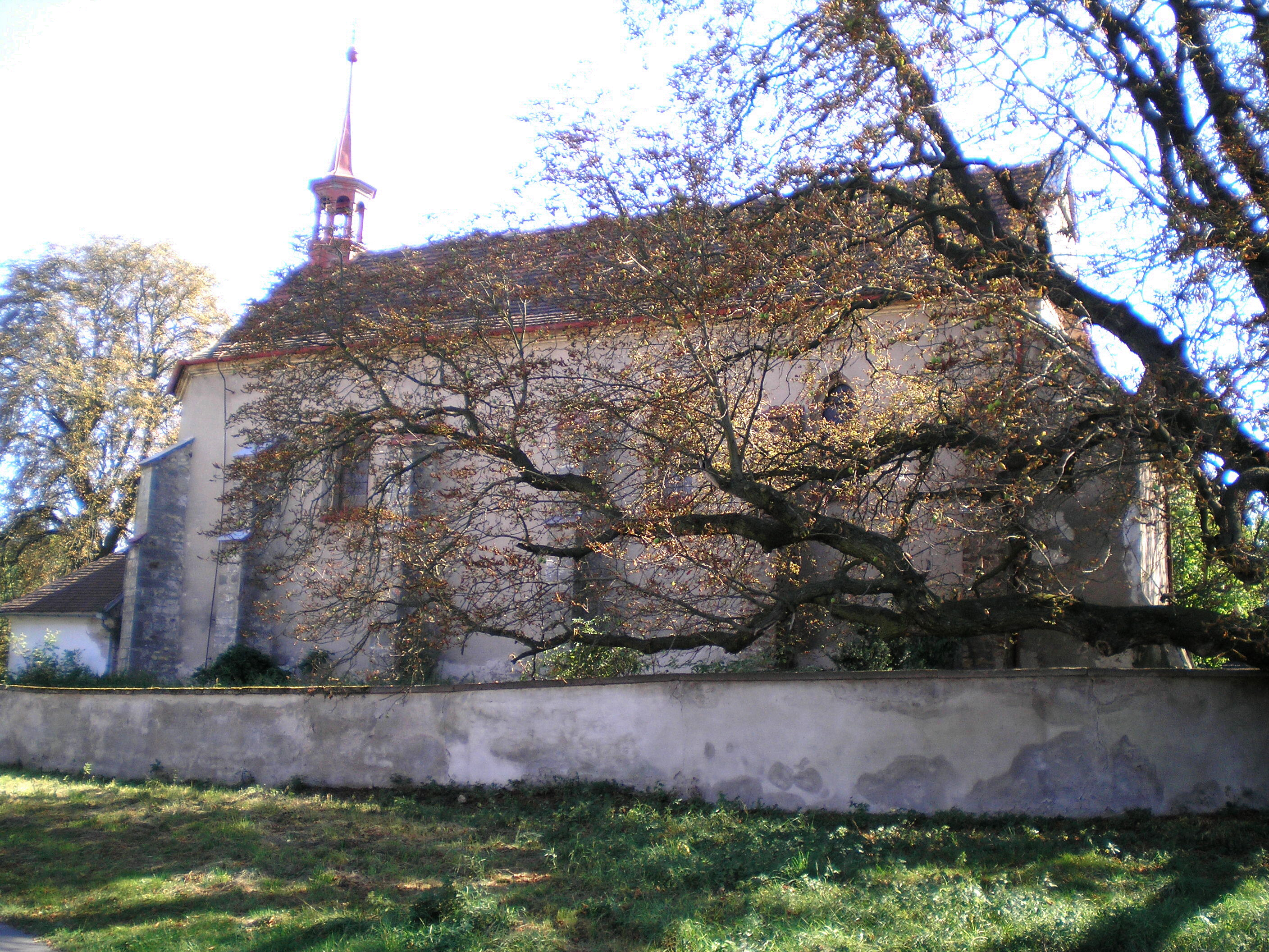 Church in Jezbořice